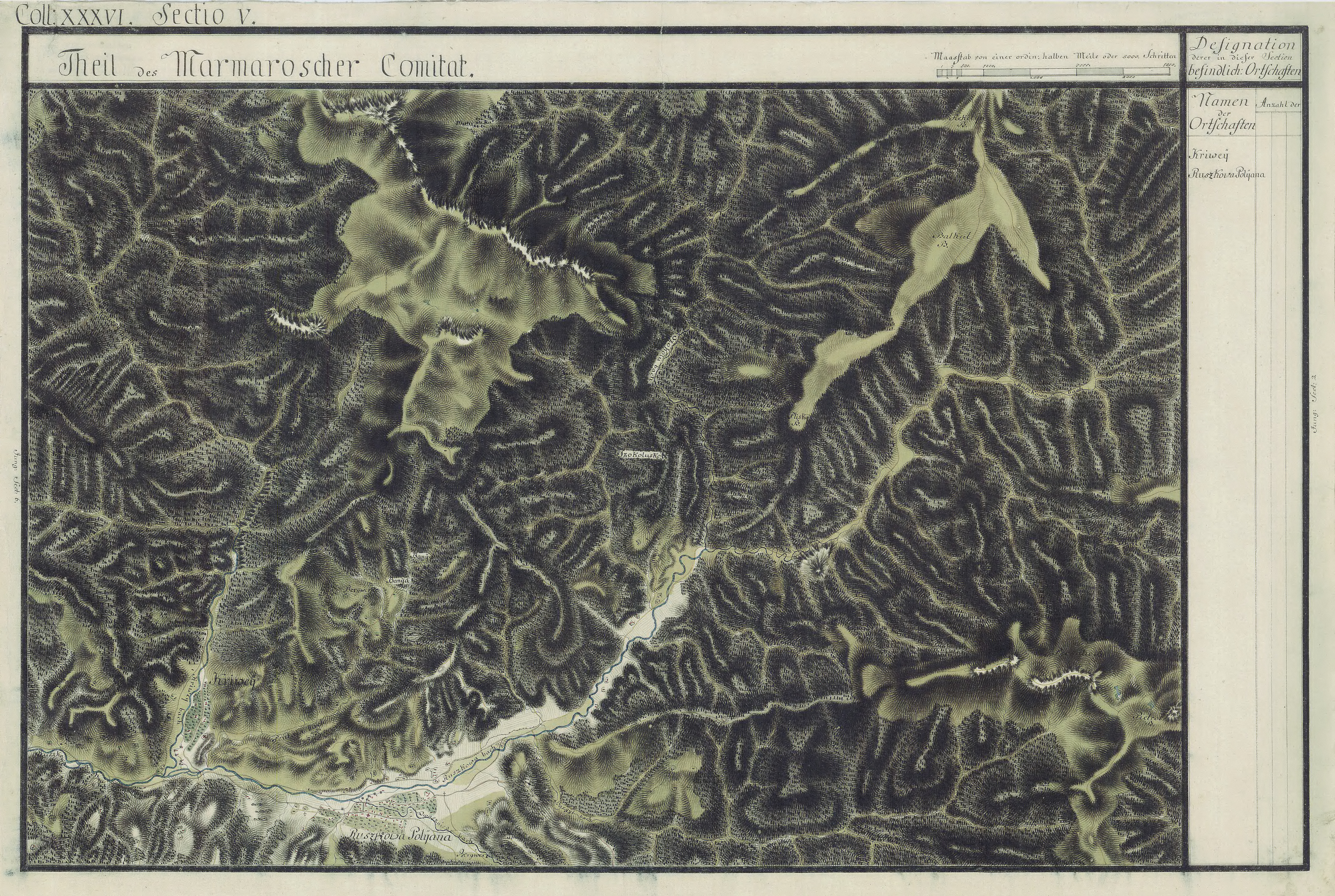 Maramureş County, 1769-1773. Josephinische Landesaufnahme pg.36-05